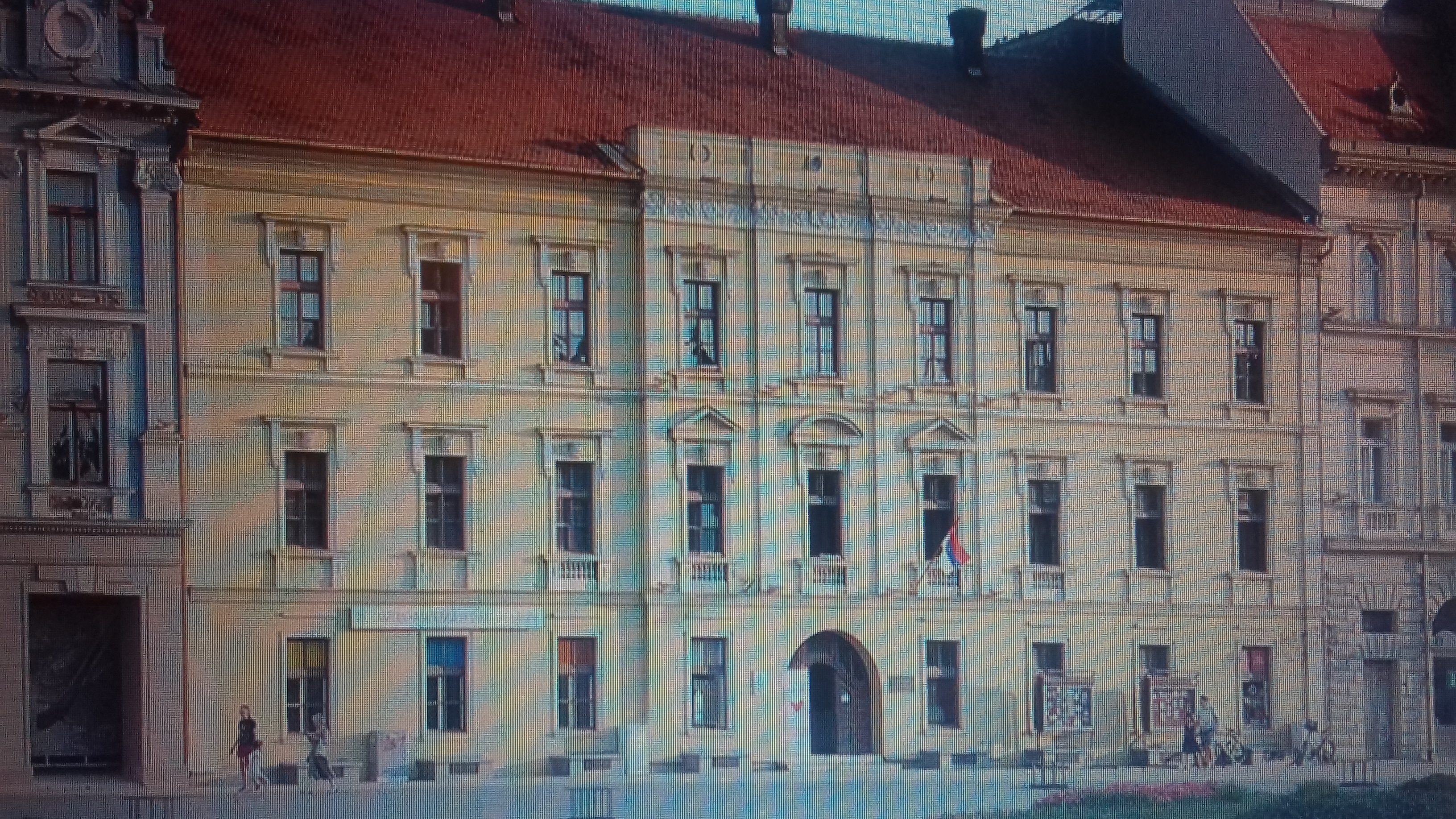 Narodno pozorište "Toša Jovanović"